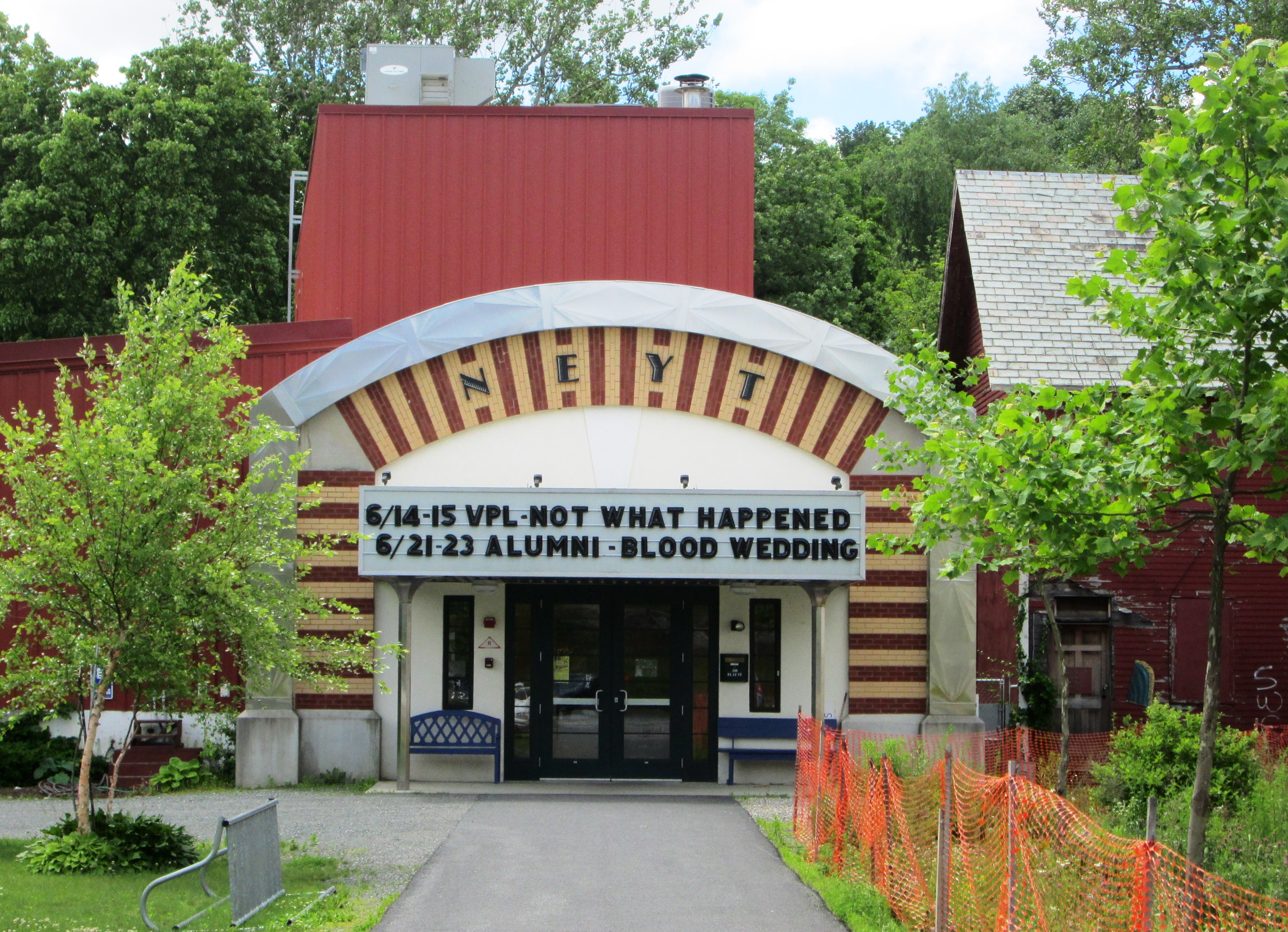 The New England Youth Theatre at 100 Flat Street in Brattleboro, Vermont was founded in 1998. It provides trainging in acting and other theatrical arts and performance opportunities for young people. The current builing was dedicated in 2006. {Source: New England Youth Theatre website)